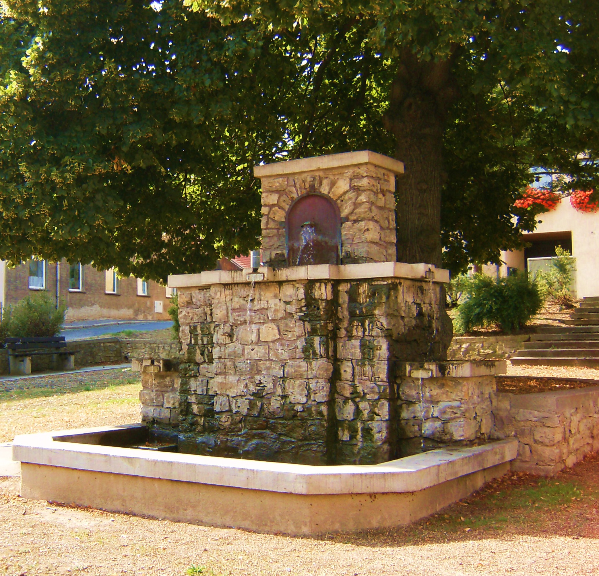 Gera Langenberg market fountain.